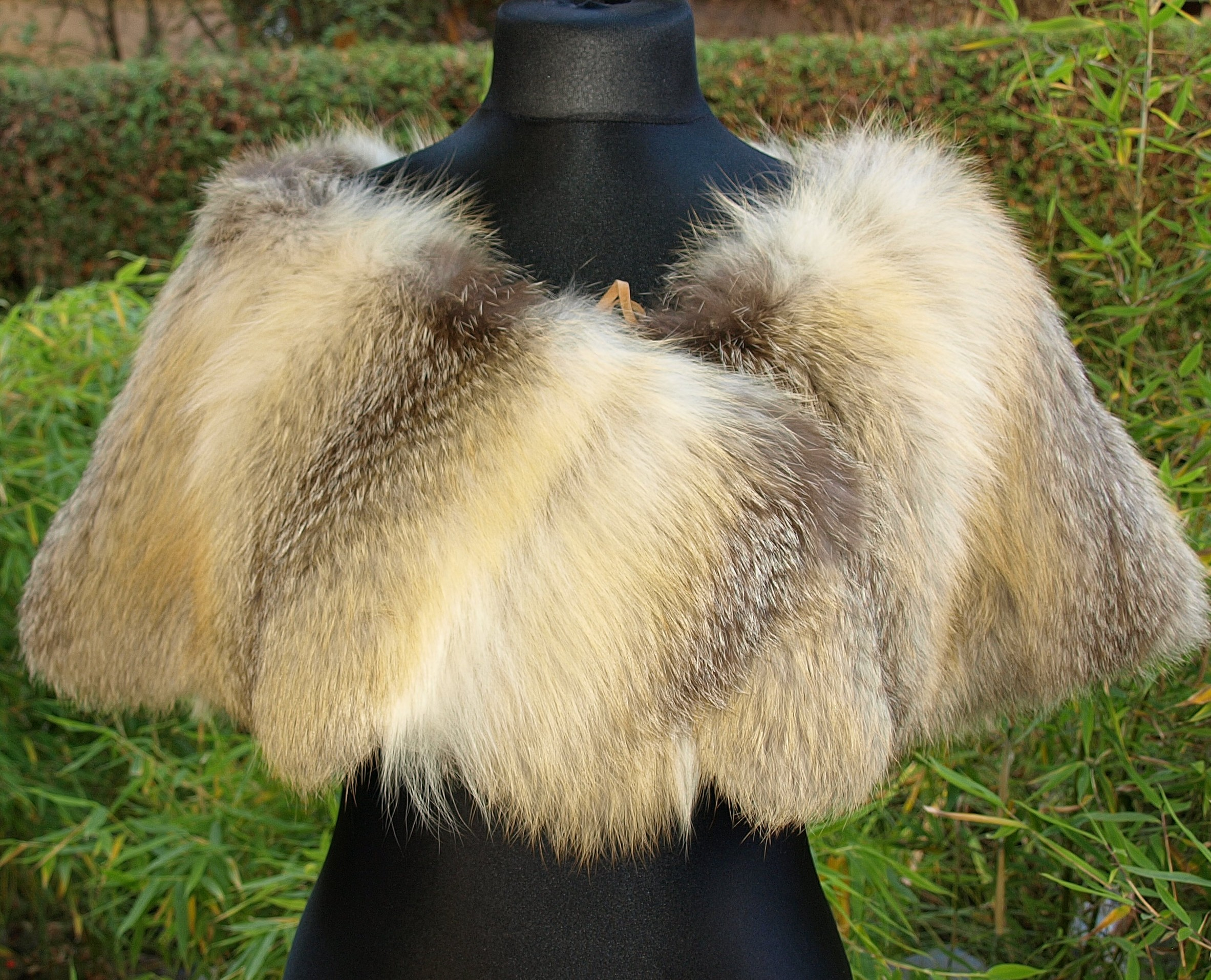 Stole of Golden Island fox fur